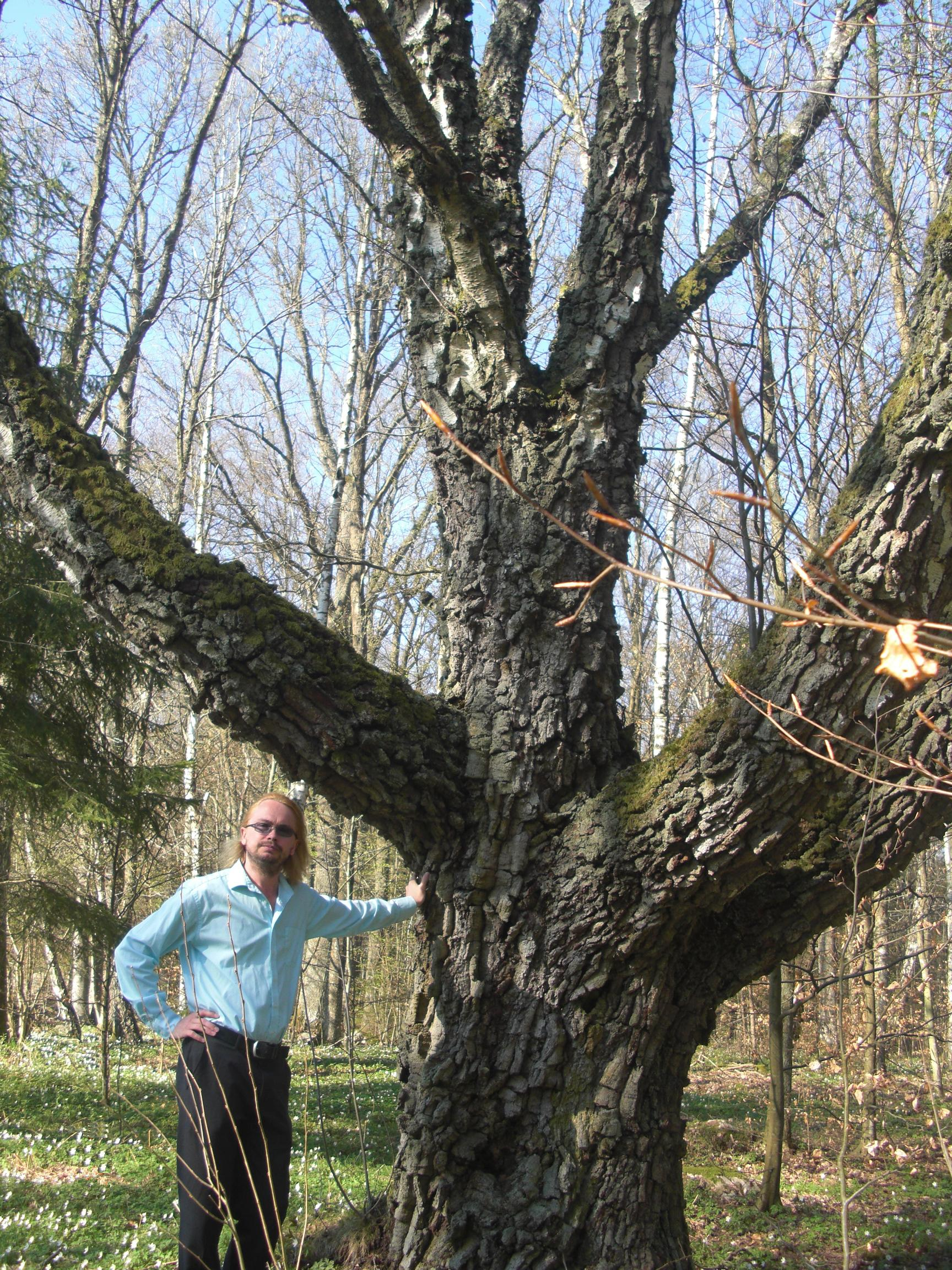 Largest circumference of Silver Birch, Betula pendula, in Blekinge County in Sweden, compared to a 76 kg man. It grows in the village Ebbalycke in the municipality of Sölvesborg.